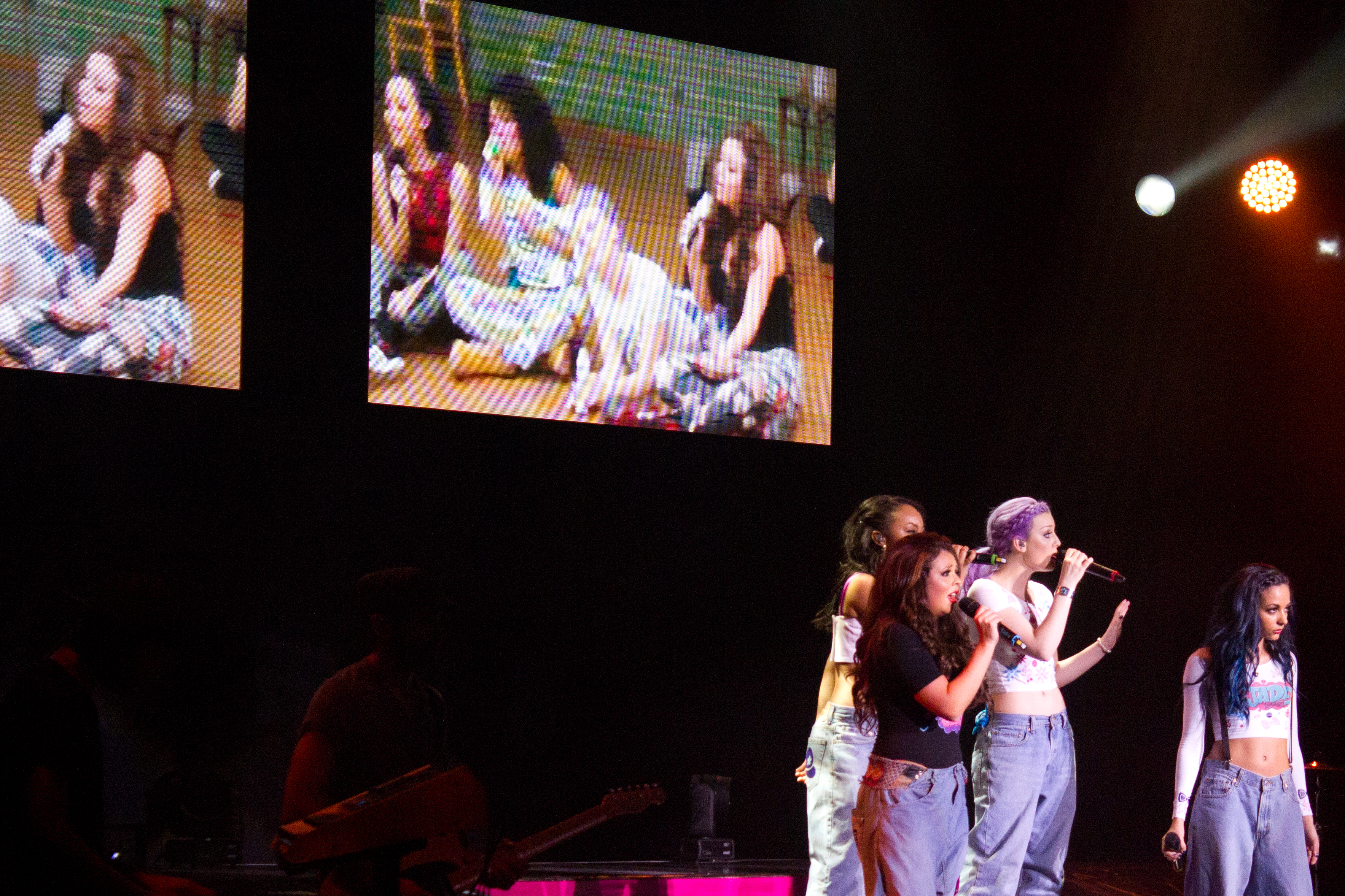 Little Mix